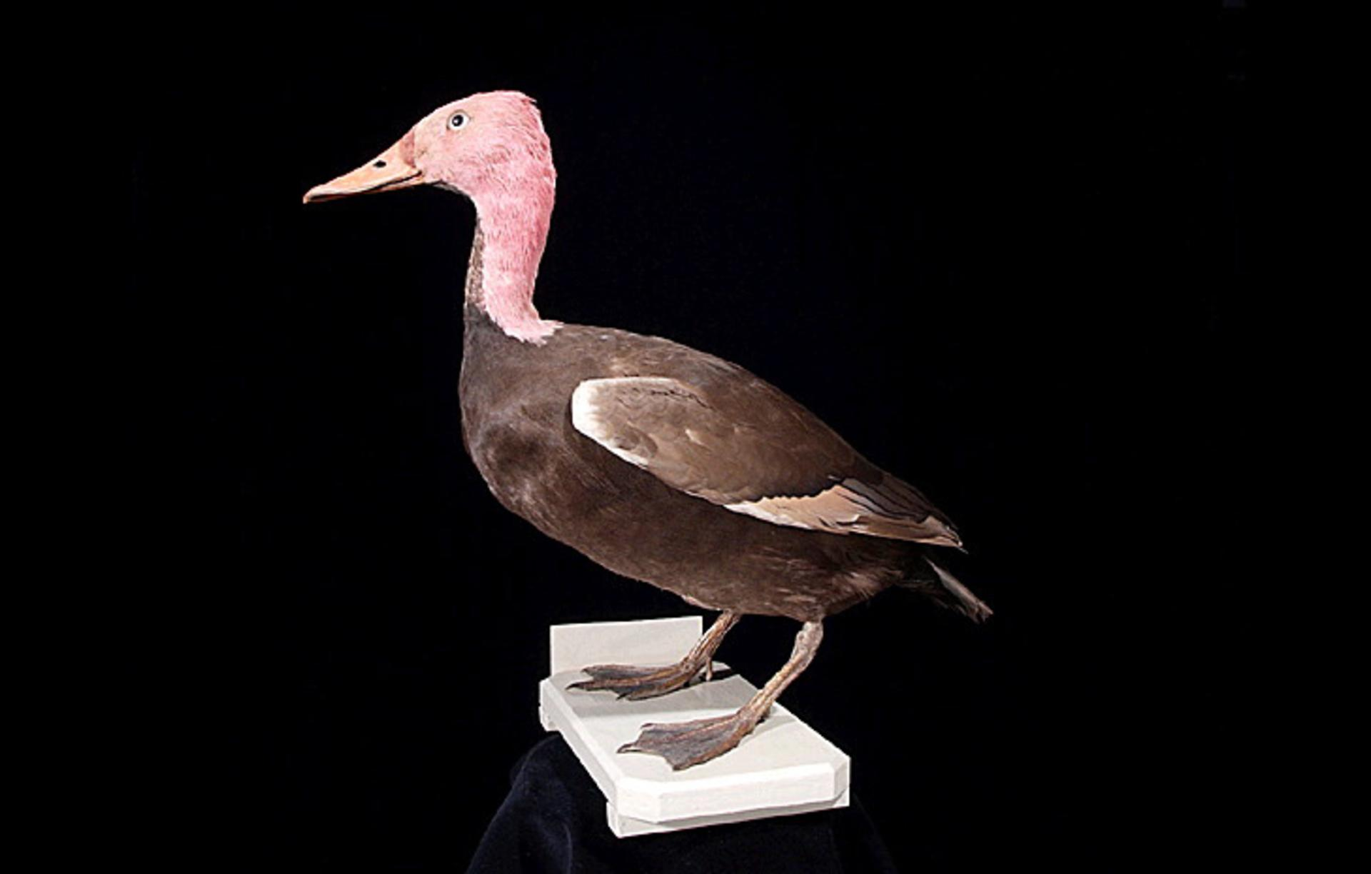 Rhodonessa caryophyllacea (Latham, 1790)